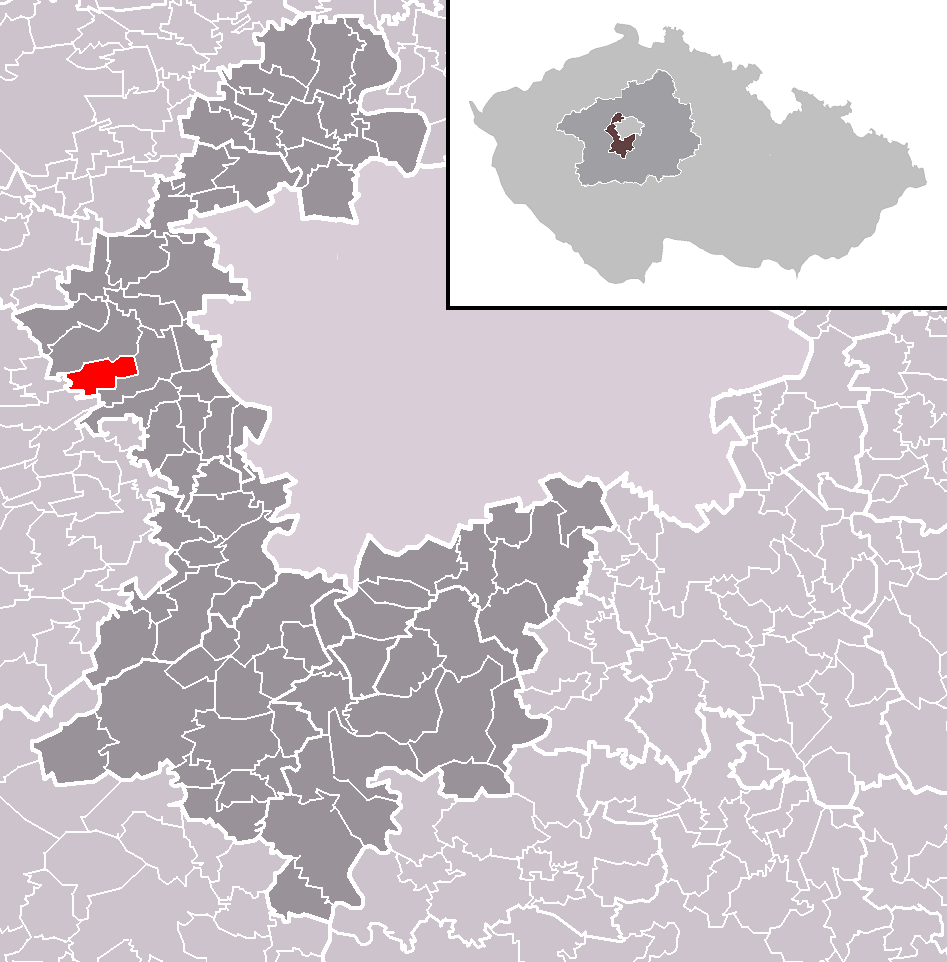 Location of Drahelčice municipality within Prague-West District and administrative area of Černošice as a Municipality with Extended Competence.